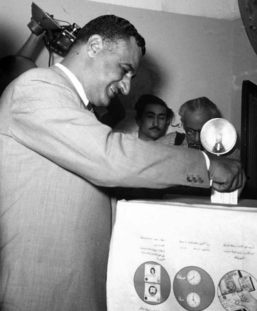 Egyptian President Gamal Abdel Nasser adding his vote in for the referendum of a new constitution